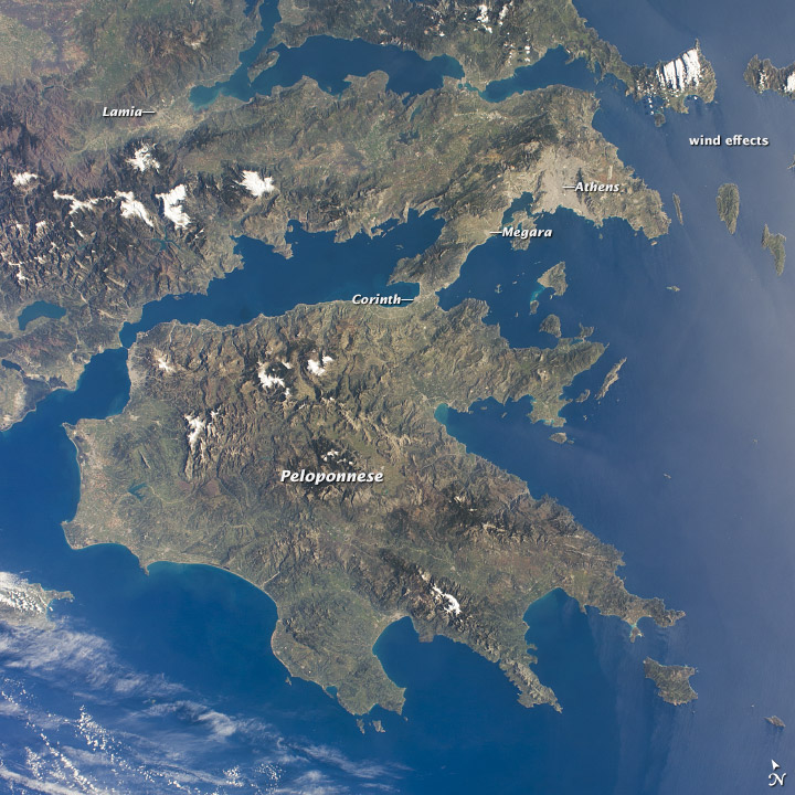 This photo from an astronaut on the International Space Station shows much of the nation of Greece. The urban region of Athens is recognizable due to its size and light tone compared to the surrounding landscape; the smaller cities of Megara and Lamia also stand out. Dark-toned mountains with snow-covered peaks contrast with warmer, greener valleys where agriculture takes place. The intense blue of the Mediterranean Sea fades near the Sun’s reflection point along the right side of the image, and numerous wind streaks in the lee of the islands become visible. The Peloponnese—home in ancient times to the city-state of Sparta—is the great peninsula separated from the mainland by the narrow isthmus of Corinth. Several times over the centuries these narrows have acted as a defensive point against attack from the mainland. More recently in 1893, the narrows provided a point of connection when a ship canal was excavated between the gulfs to the west and to the east.